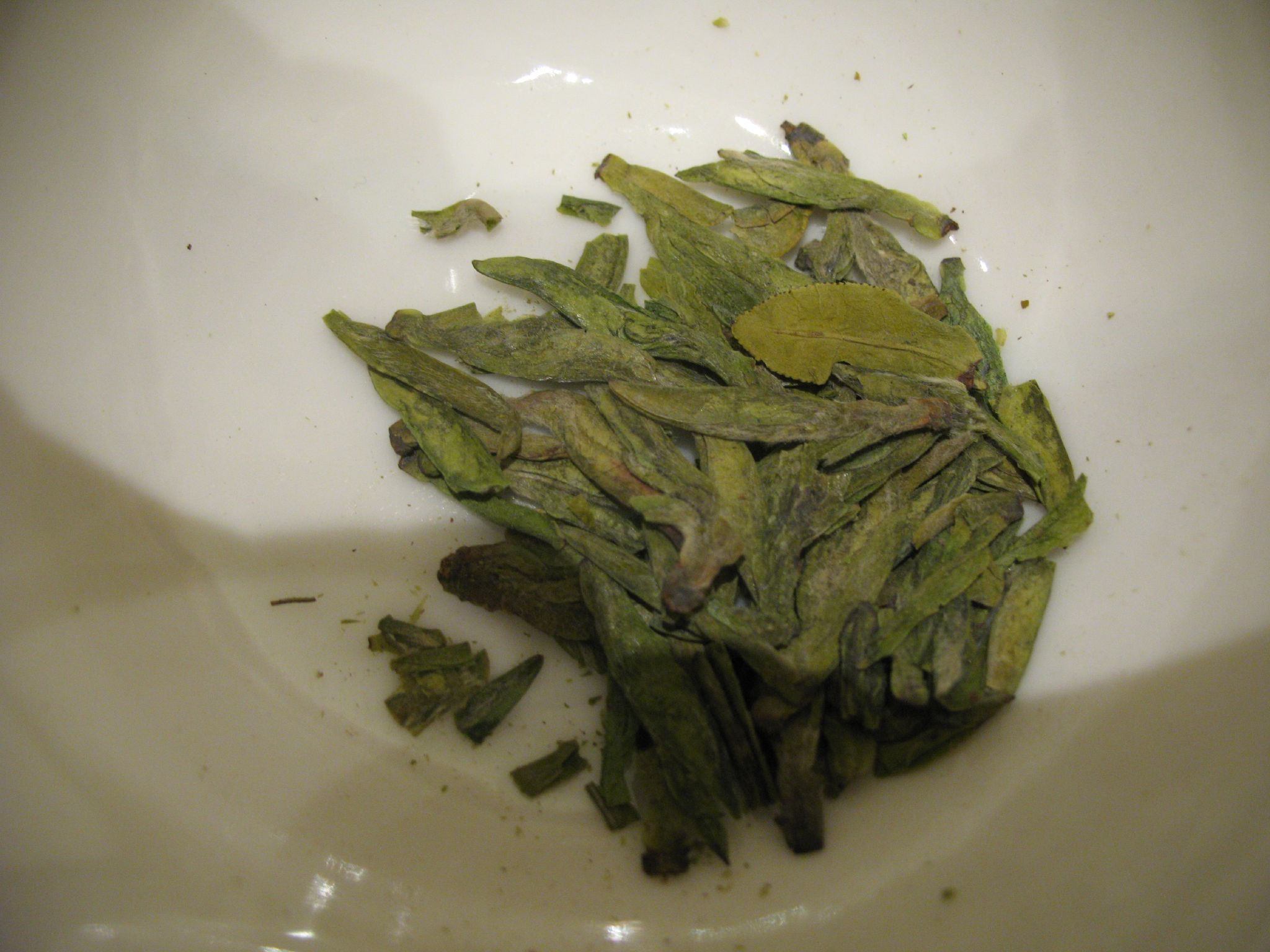 West Lake Longjing tea leaves